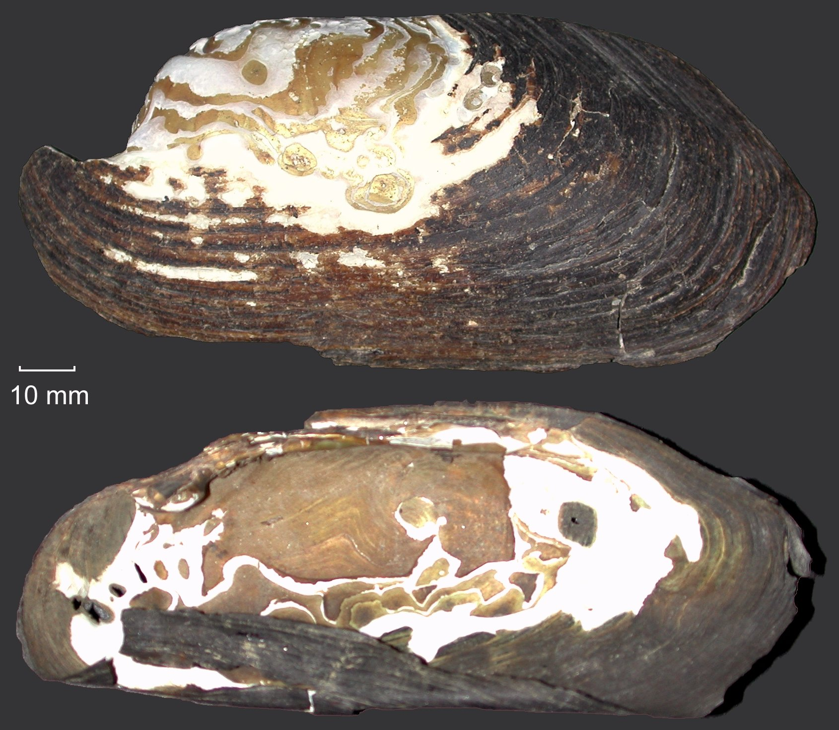 Corroded shells of Margaritifera margaritifera Calcareous layers dissolved by acidic water, periostracum is what is left. Specimens from the River Erlau (1968), southeastern Germany.